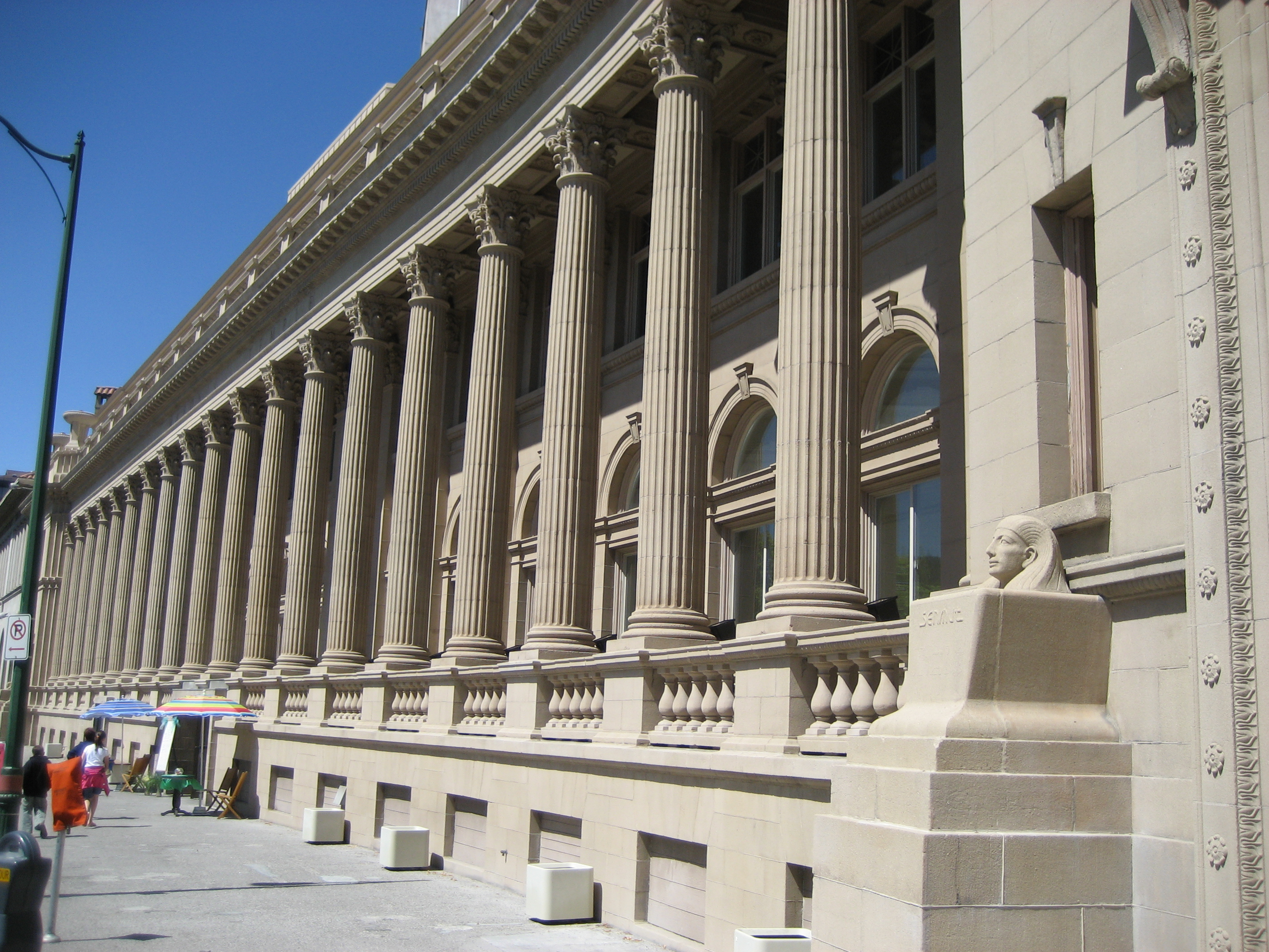 The masonic temple, Spokane WA. By Déclic